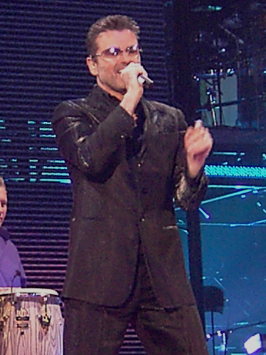 George Michael performing at the Olympiahalle arena (Munich, Germany) in 2006, for the 25 Live tour.